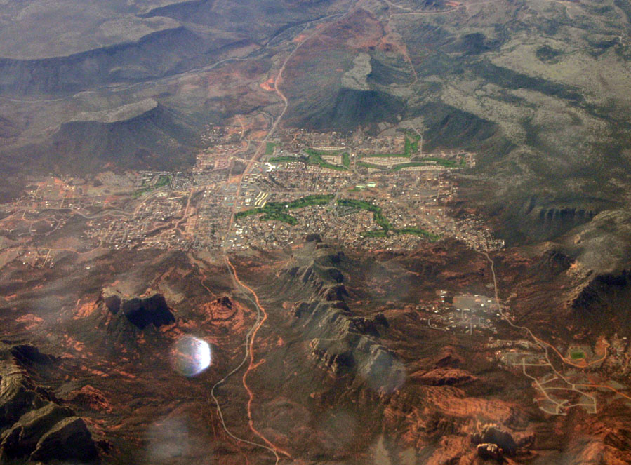 Oblique air photo of Big Park and Oak Creek, facing south, in March 2007. The hexagons near the bottom are glare caused by ice crystals on the airplane window.